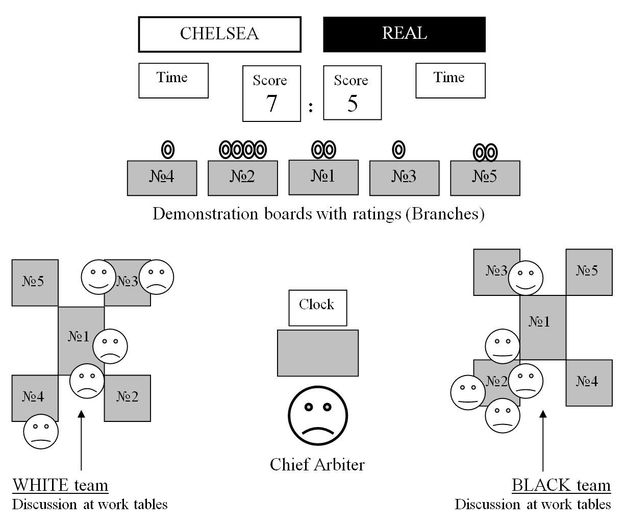 SCHEME 1. Business Chess Game Decorations